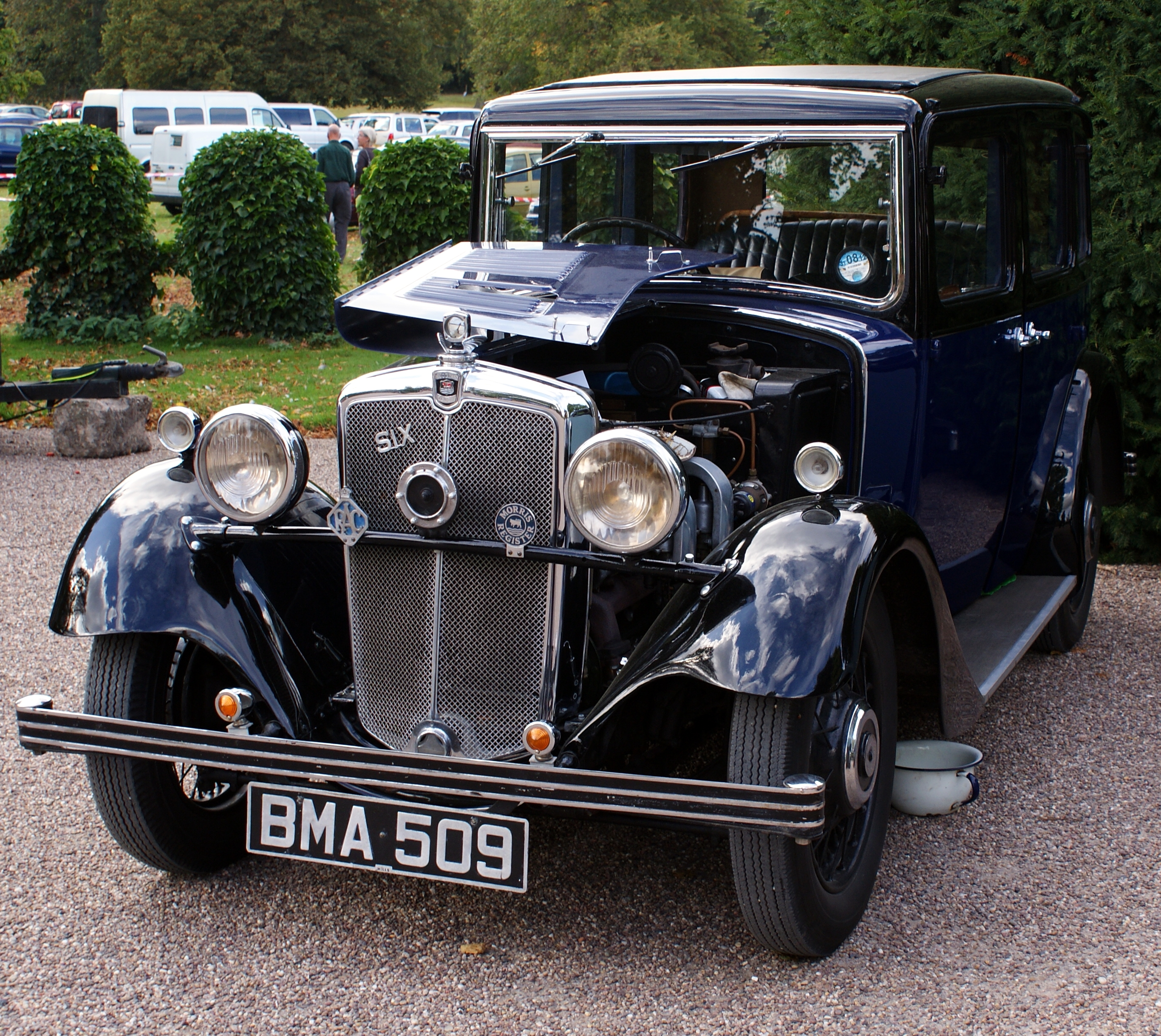 Morris Ten Six BMA 509 1934 (DVLA) first registered 1 November 1934, 1378cc Rufford Abbey, 10th September 2011